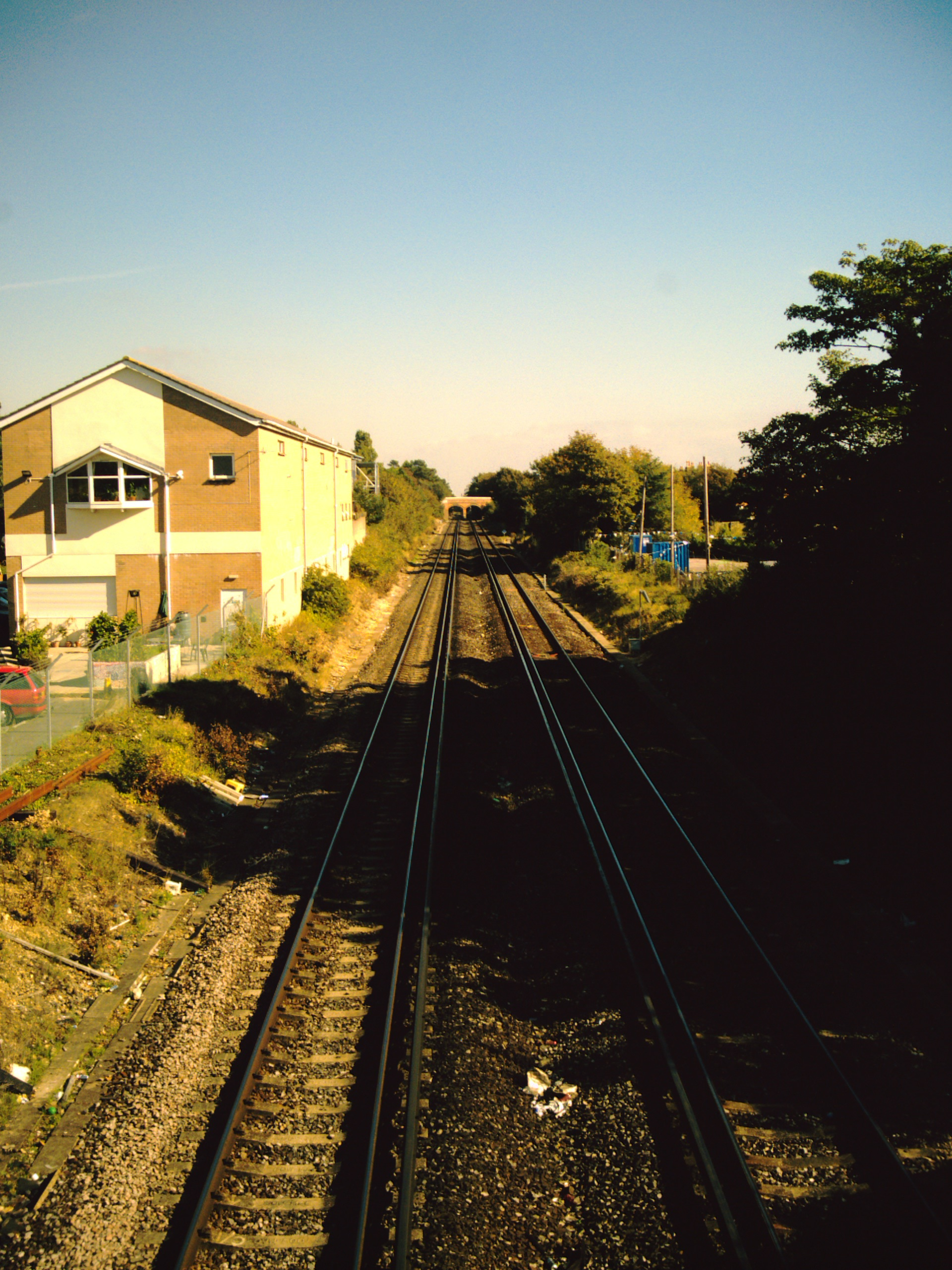 The site of Boscombe station in October 2007